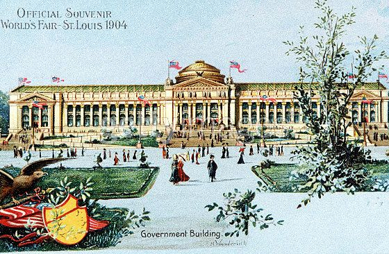 Souvenir card (one of many) from the Louisiana Purchase Exposition in St. Louis, United States.